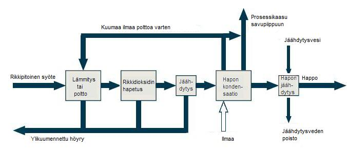 Wet sulfuric acid process